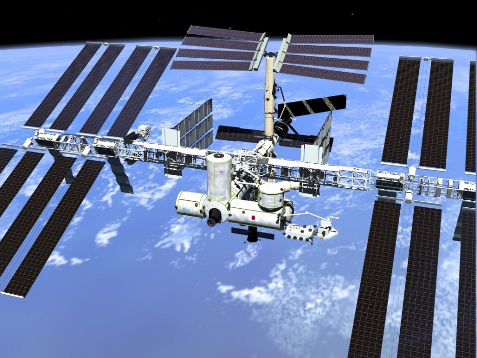 International Space Station from space